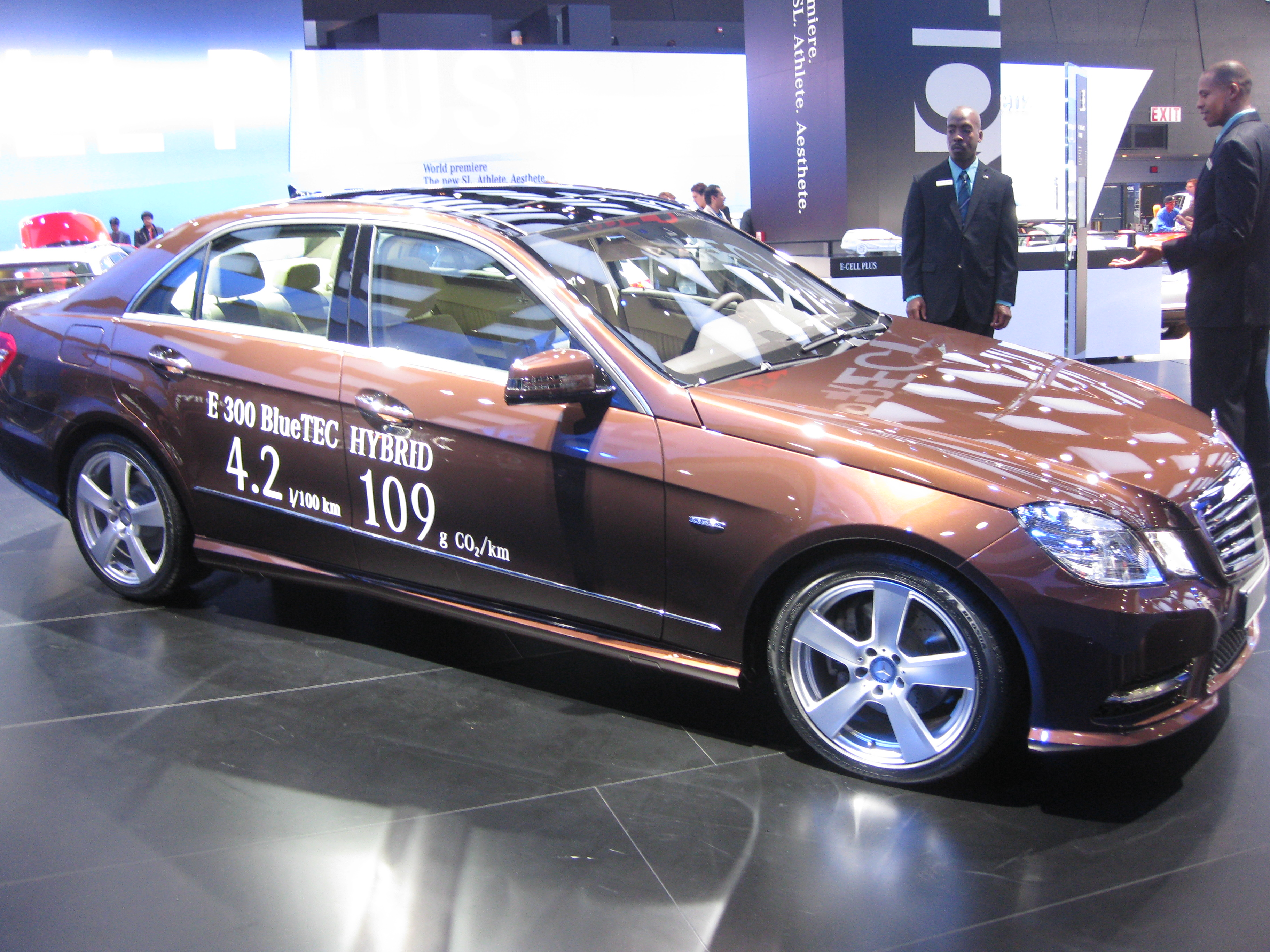 For more info and images please check